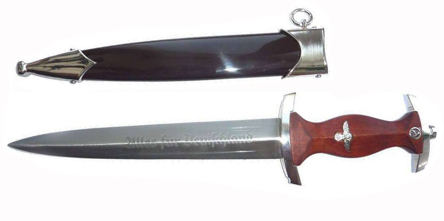 Кинжал СА